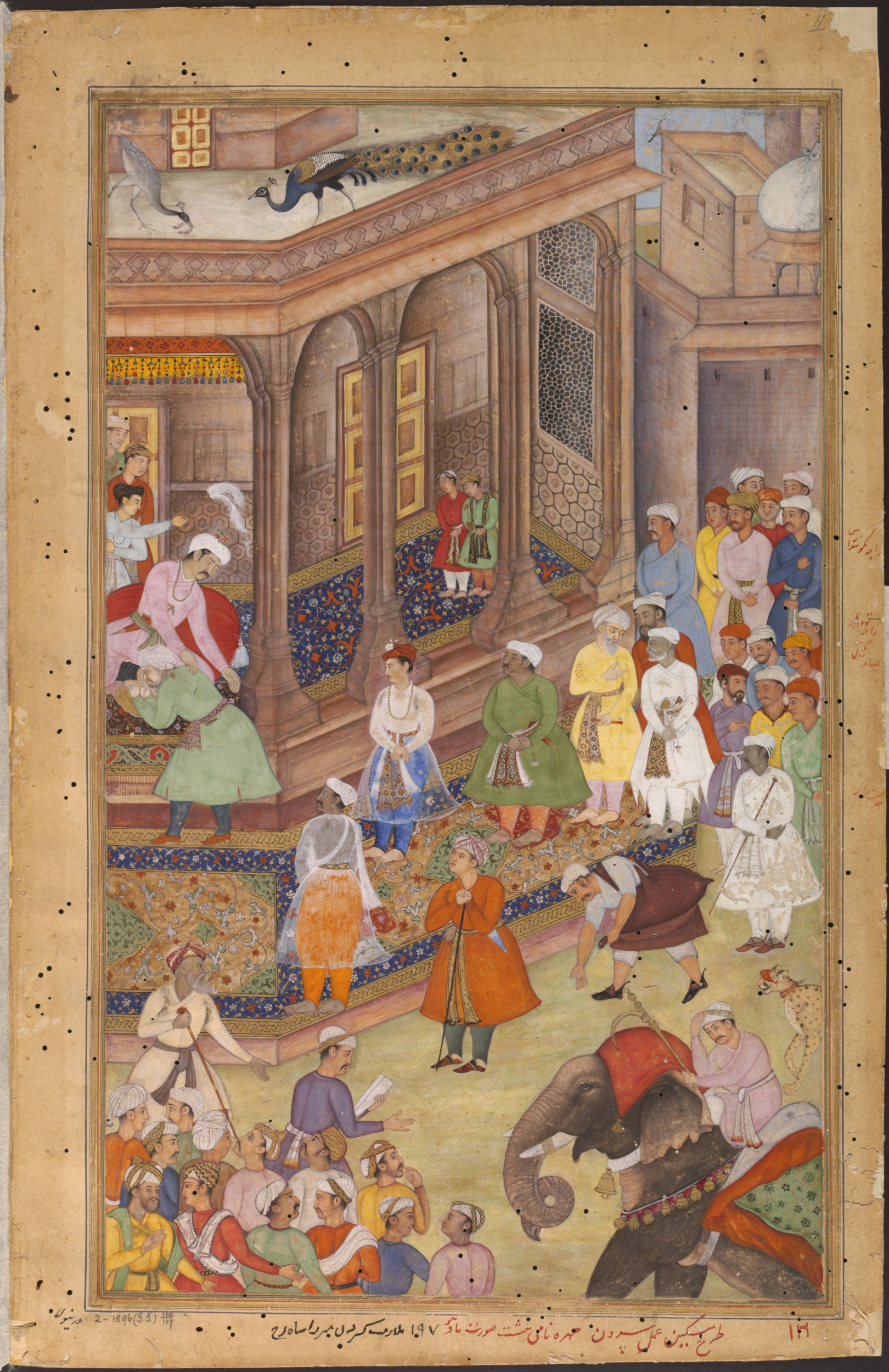 Akbar greeting Rajput rulers and other nobles at court, 1577 from the Akbarnama